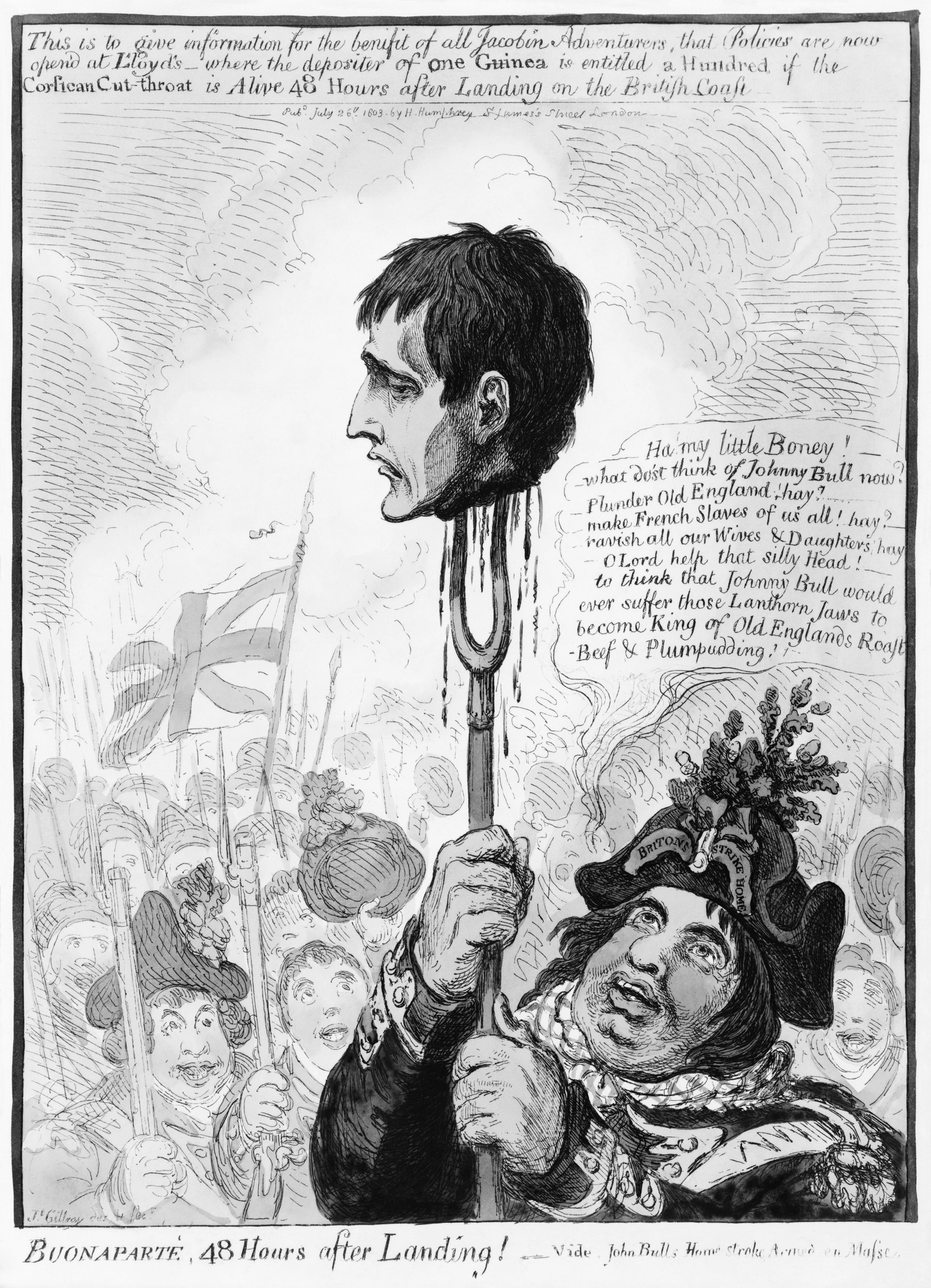 Caricature of Napoleon, beheaded, in the hypothetical scenario of an invasion of England. Depicts John Bull holding Napoleon's head on a pitchfork. Etching. Text transcriptions: Top This is to give information for the benifit of all Jacobin Adventurers, that Policies are now open'd at Lloyd’s—where the depositer of one Guinea is entitled a Hundred if the Corsican Cut-throat is Alive 48 Hours after Landing on the Britiſh Coaſt. Below top Pubd. July 26th. 1803. by H.Humphrey St James's Sheet London Middle Ha! my little Boney! what do'st think of Johnny Bull now? Plunder old England! hay? make French Slaves of us all! Hay? ravish all our Wives & Daughters! hay O Lord help that silly Head! to think that Johnny Bull would ever suffer those Lanthorn Jaws to become King of Old Englands Roaſt Beef & Plumpudding! On John Bull's hat BRITONS STRIKE HOME Bottom left Js. Gillray des. & fee Bottom BUONAPARTE, 48 Hours after Landing!--Vide John Bulls home-stroke, Armed en Maſse